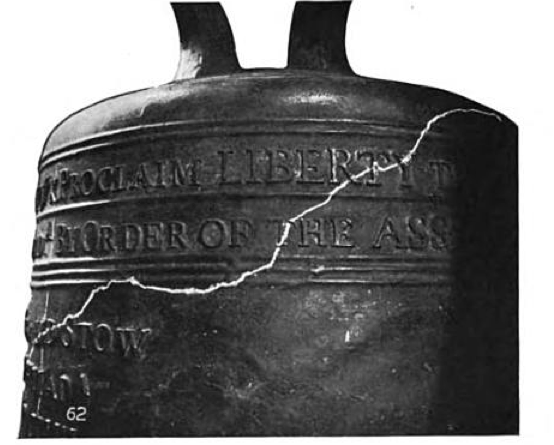 Liberty Bell depiction of hairline crack, early 20th century.